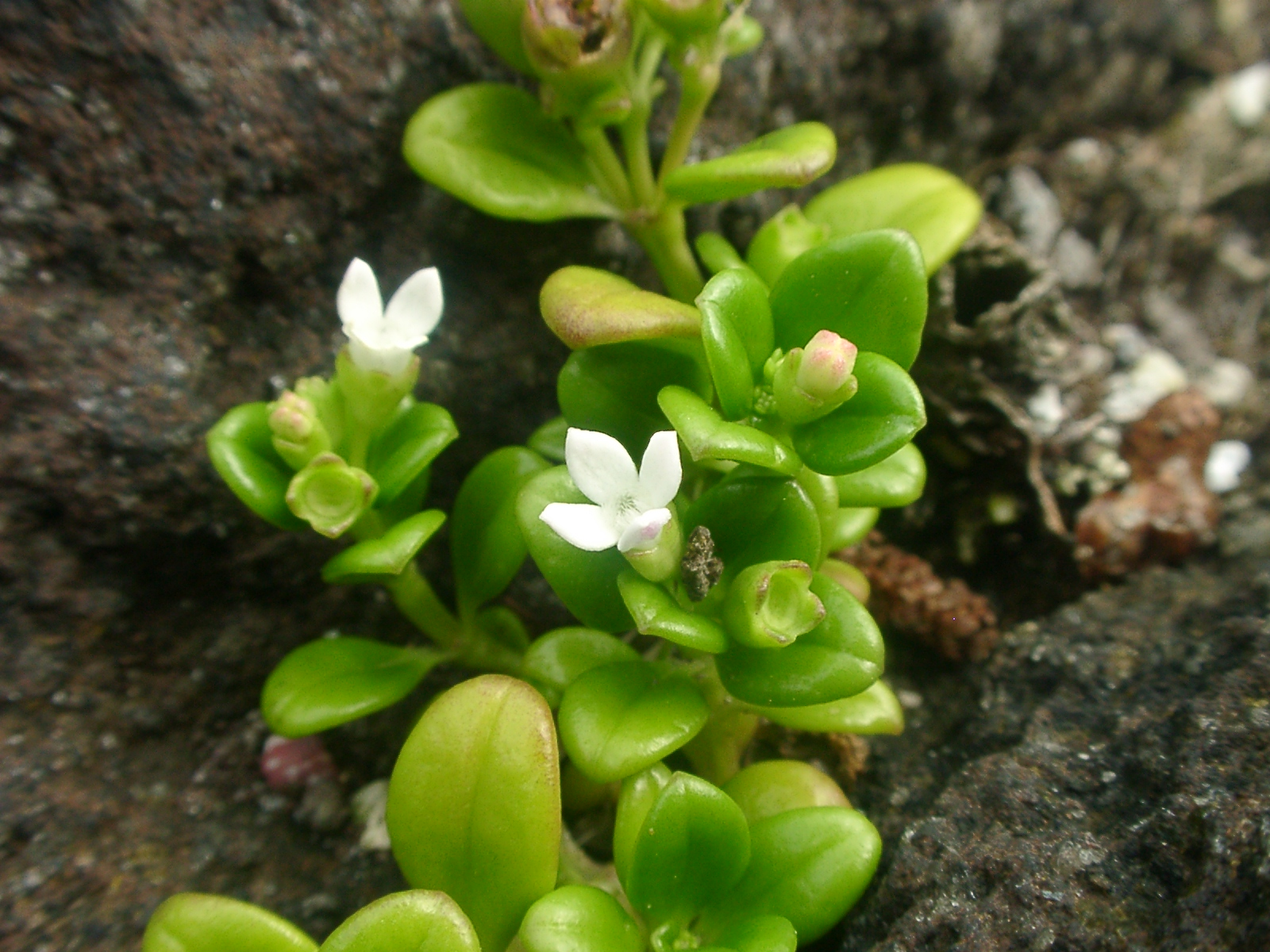 Hedyotis biflora var. parvifolia 's flower. at Manazuru-machi, Japan.